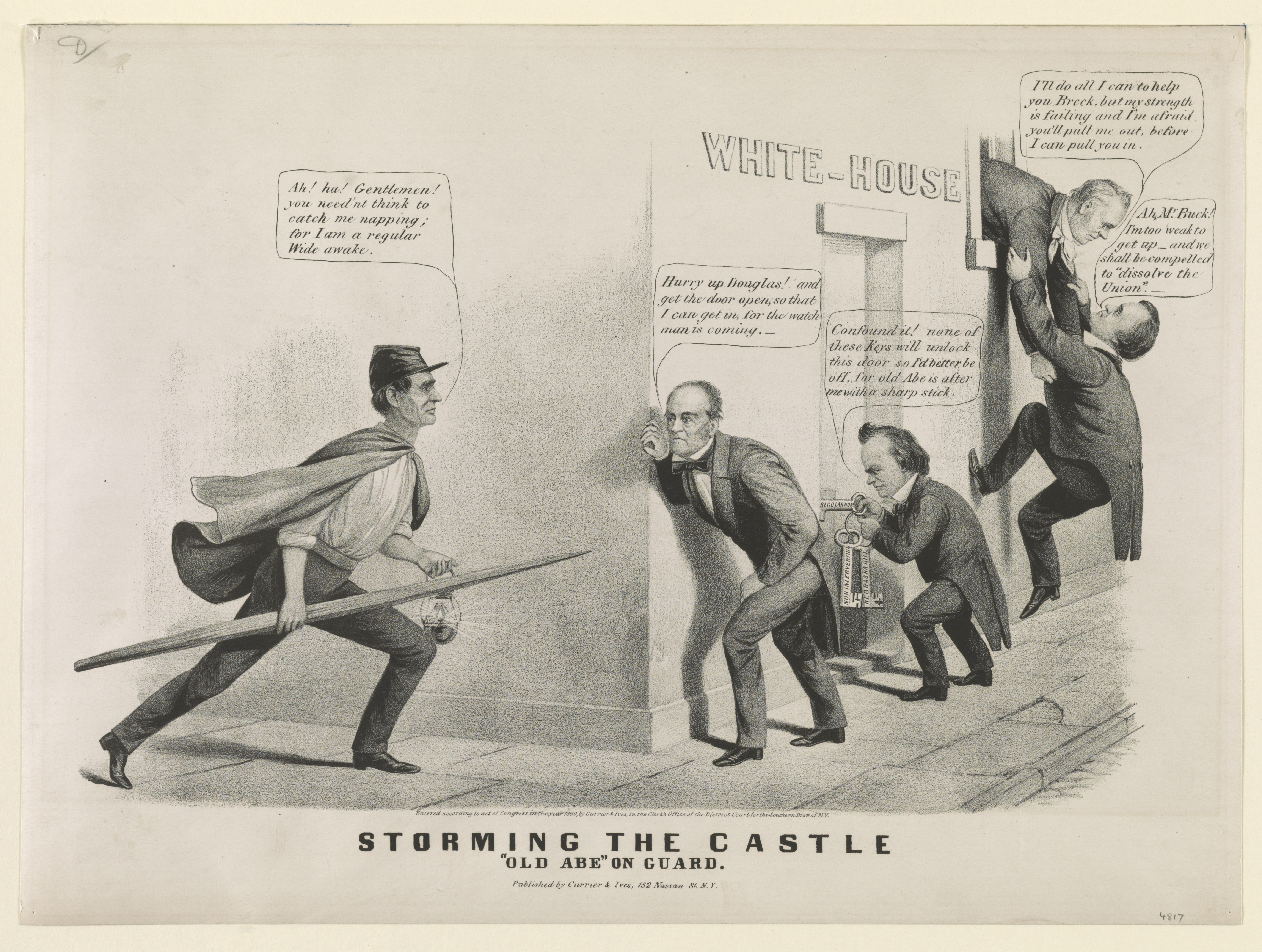 Title: Storming the castle. "Old Abe" on guard Abstract: During the 1860 election campaign the "Wide Awakes," a marching club composed of young Republican men, appeared in cities throughout the North. (See no. 1860-14.) They often wore uniforms consisting of visored caps and short capes, and carried lanterns. Here Republican presidential candidate Abraham Lincoln (left) is dressed as a "Wide-Awake," and carries a lantern and a spear-like wooden rail. He rounds the corner of the White House foiling the attempts of three other candidates to enter surreptitiously. At far right incumbent James Buchanan tries to haul John C. Breckinridge in through the window. Buchanan complains, "I'll do what I can to help you Breck, but my strength is failing and I'm afraid you'll pull me out before I can pull you in." Breckinridge despairs, ". . . I'm too weak to get up--and we shall be compelled to dissolve the Union.'" His words reflect his and Buchanan's supposed alliance with secessionist interests of the South. In the center Democrat Stephen A. Douglas tries to unlock the White House door, as Constitutional Union party candidate John Bell frets, "Hurry up Douglas! and get the door open, so that I can get in, for the watchman [i.e., Lincoln] is coming." Douglas complains that none of the three keys he holds (labeled "Regular Nomination," "Non Intervention," and "Nebraska Bill") will open the door, ". . . so I'd better be off, for old Abe is after me with a sharp stick." Physical description: 1 print on wove paper : lithograph ; image 30 x 42 cm. Notes: Published in: American political prints, 1766-1876 / Bernard F. Reilly. Boston : G.K. Hall, 1991, entry 1860-40.; Probably drawn by Louis Maurer.; Title from item.